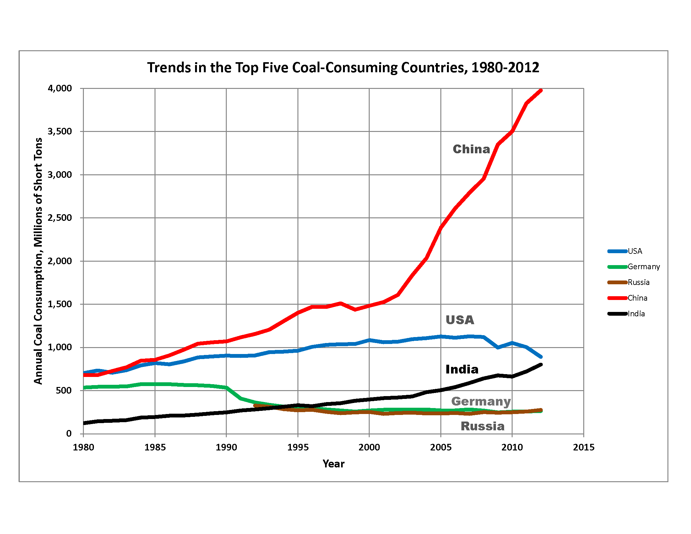 Coal consumption trends through 2012 in the top five coal-consuming countries